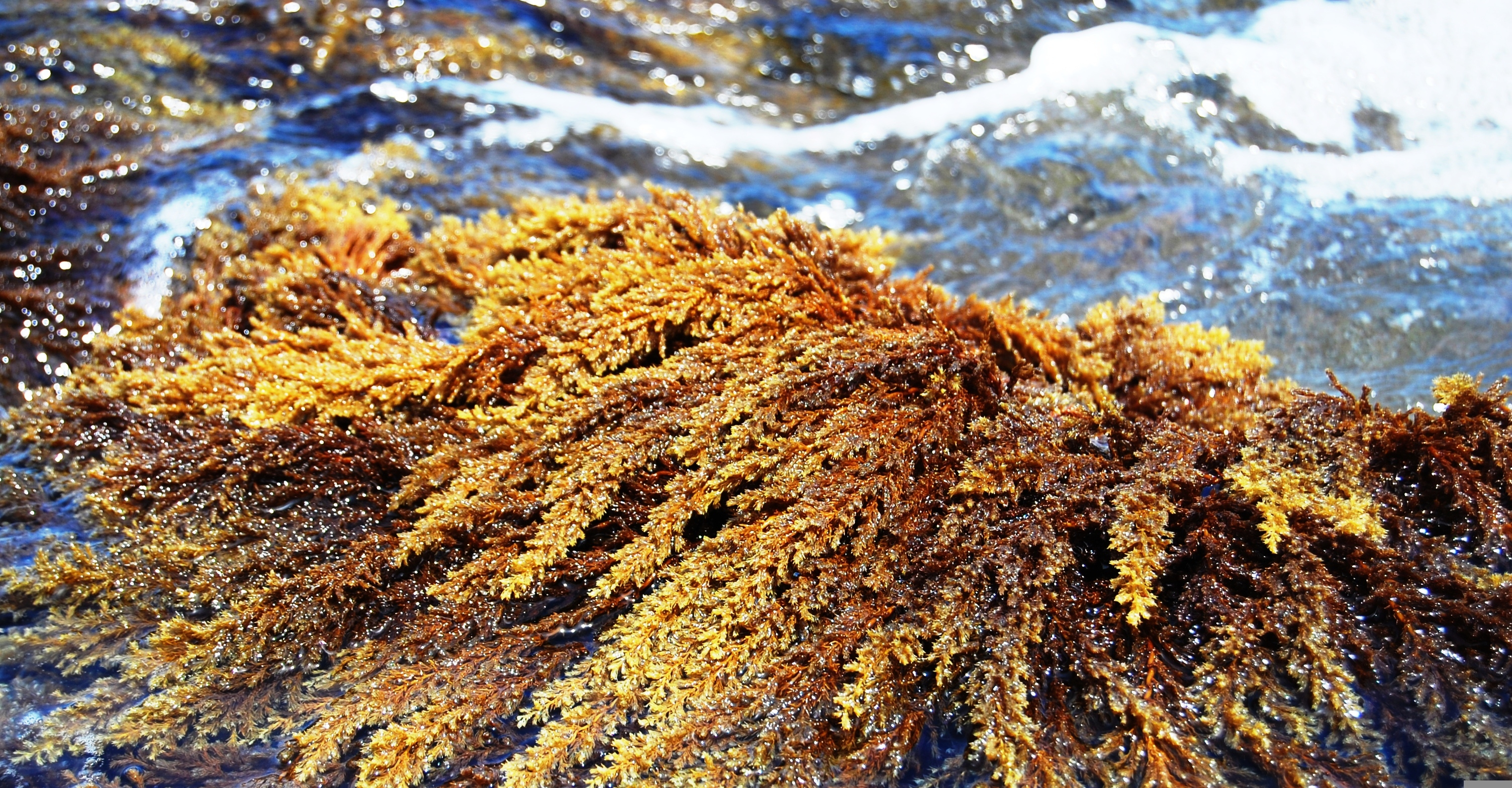 Cystoseira sp. - Mediterranean Sea